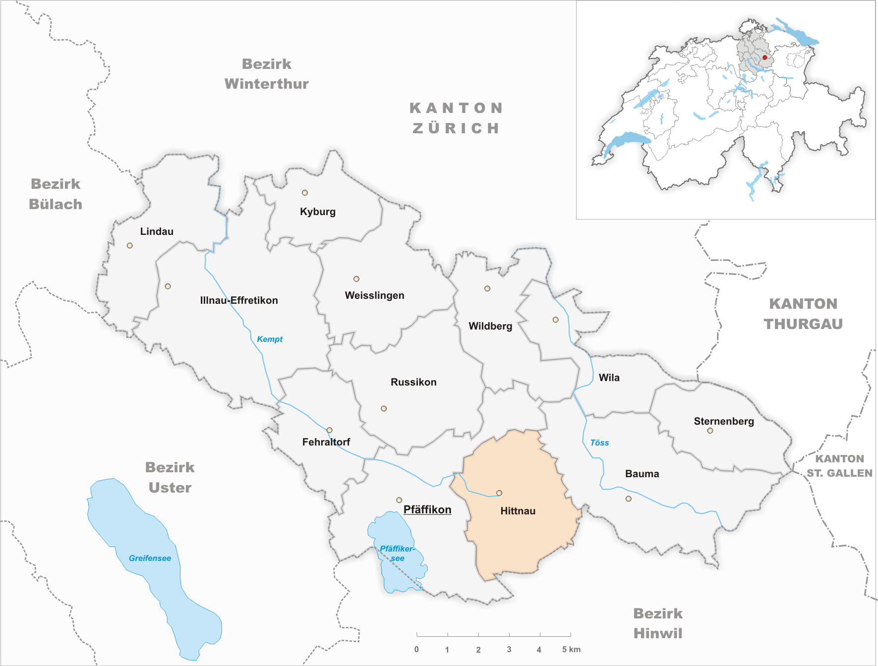 Municipality Hittnau